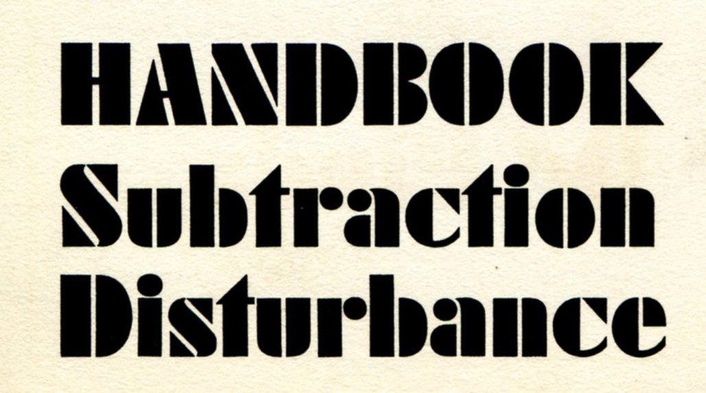 A specimen of the font Futura Black, from a metal type specimen sheet.